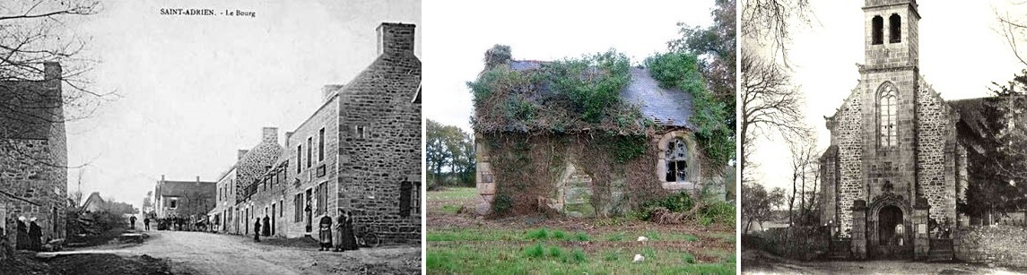 Le bourg saint adrien